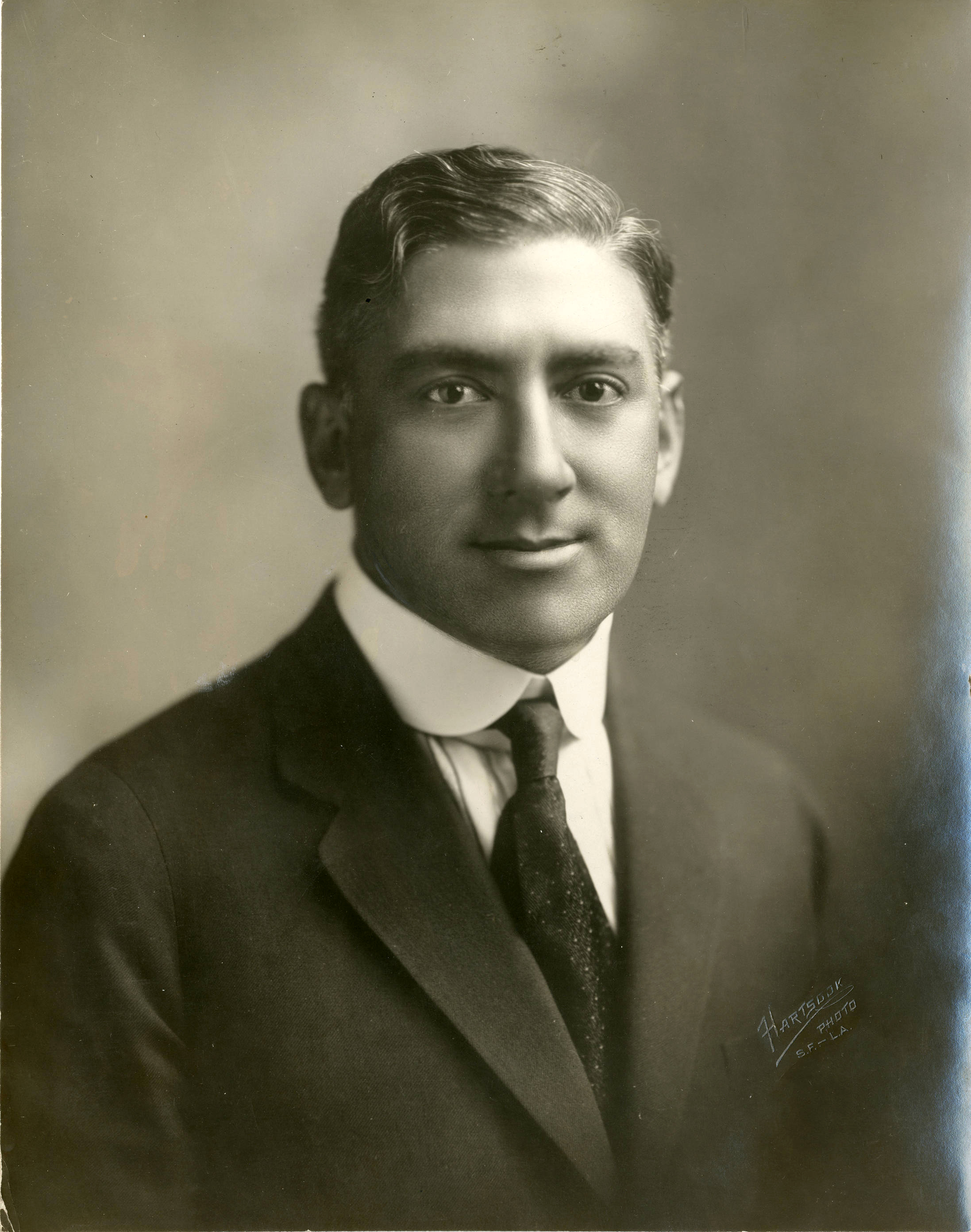 Promotional photo of Hiram Abrams